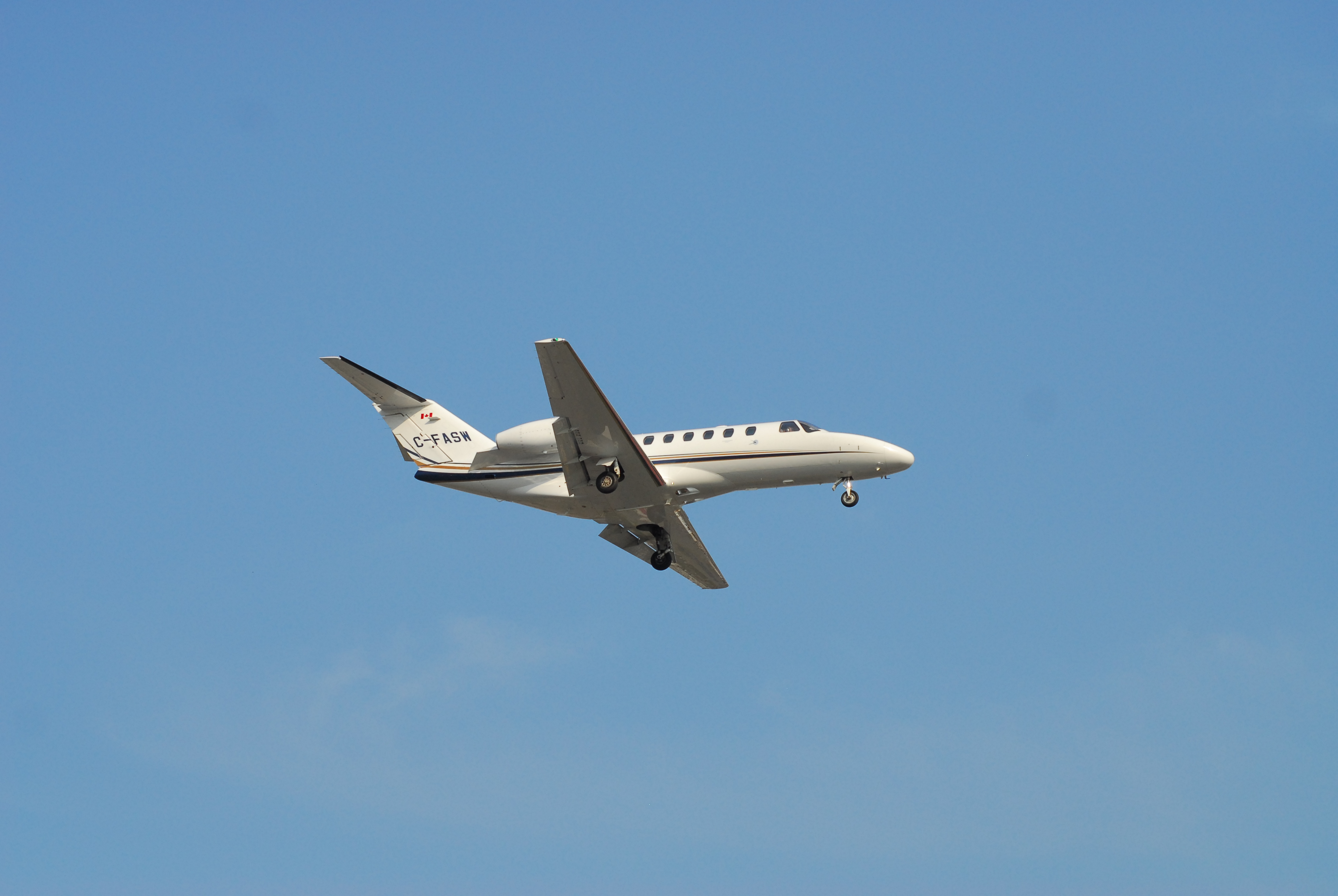 C-FASW Cessna 525A Citation CJ2 ASP - Airsprint Inc Flight ASP503 from YEE to YYZ